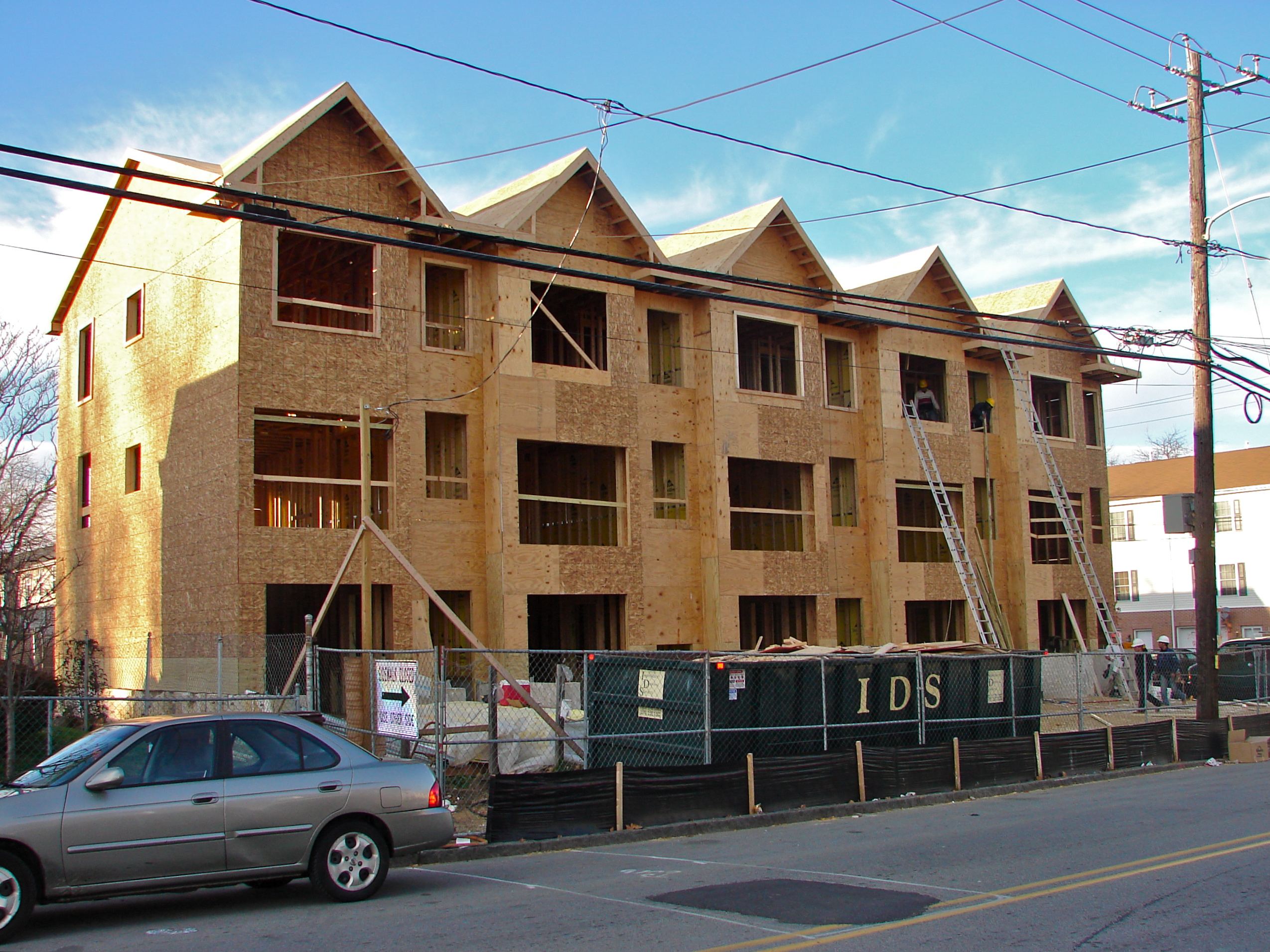 Construction at the site of the Kingswood Methodist Episcopal Church, on the NRHP since February 9, 1989. At the South West corner of Fourteenth and Claymont Sts. according to the NRHP nomination, in Wilmington, Delaware. SWC in the nomination is a bit confusing as the street grid is tilted west. This photo is of the West corner. The south corner has 40+ year old buildings on it.